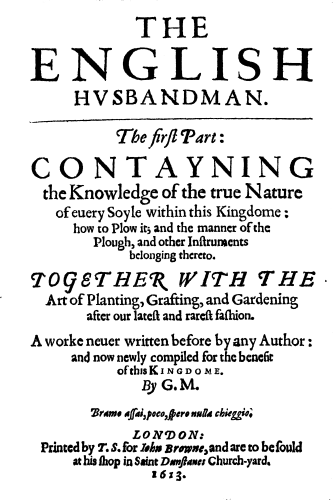 Title page of Gervase Markham's "The English Husbandman"